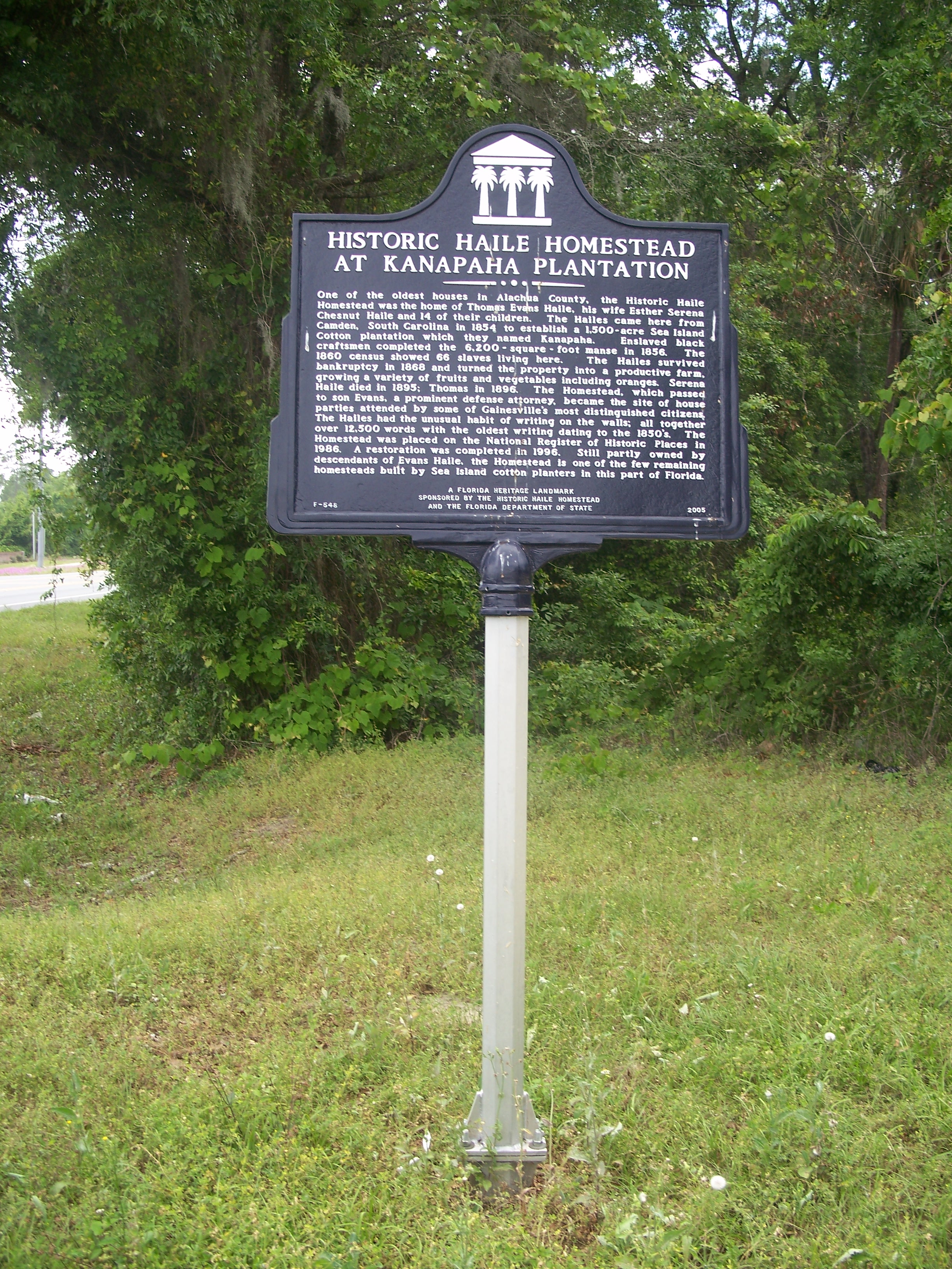 Gainesville, Florida: Haile Homestead: Historical marker